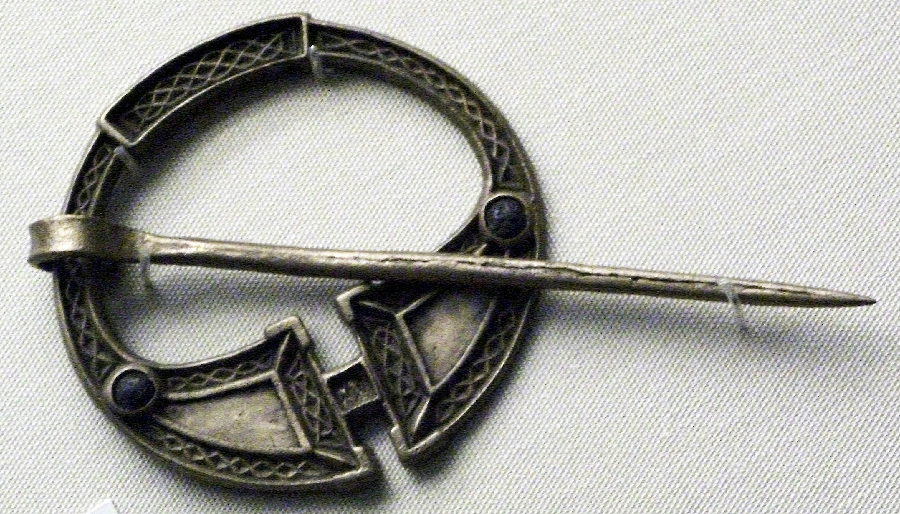 Irish pseudo-penannular brooch in bronze with glass, British Museum